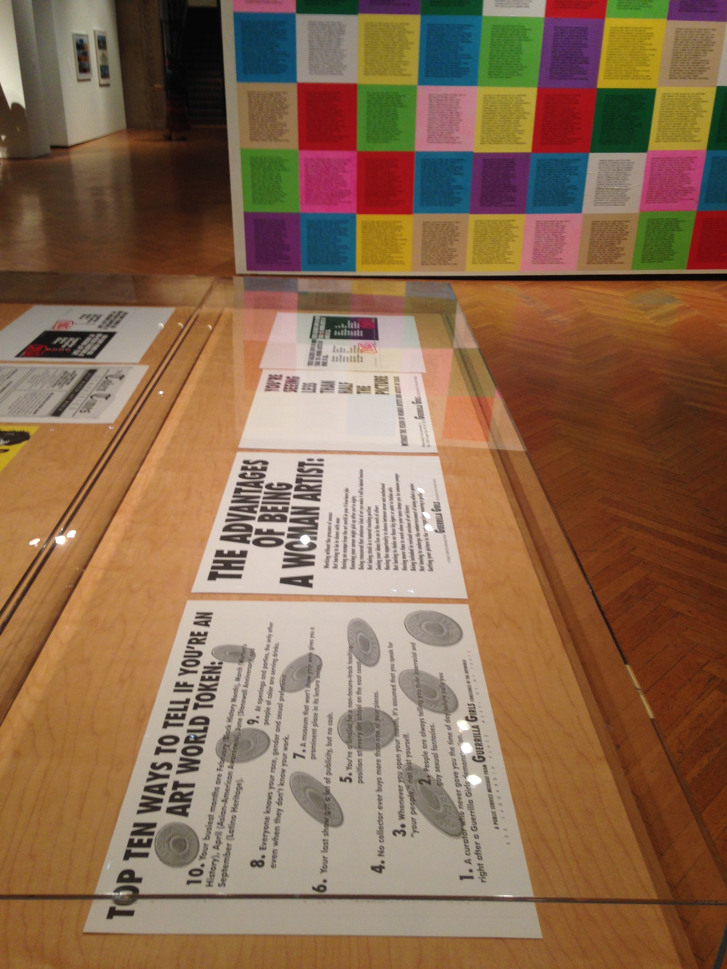 Public Works: Artists' Interventons 1970S–now